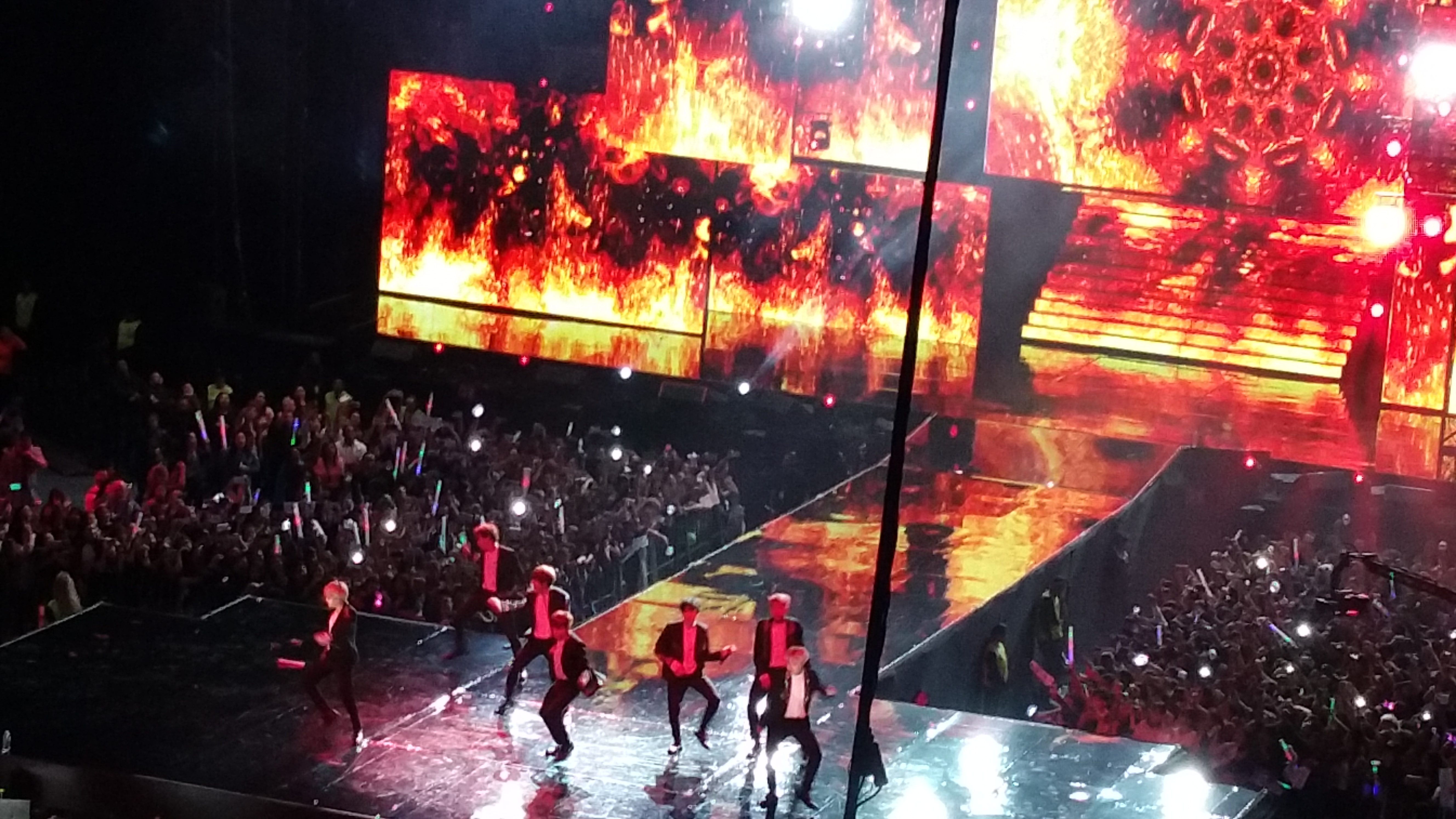 KCON Mexico 2017, Arena Ciudad de México, March 17-18, BTS performing "Fire".